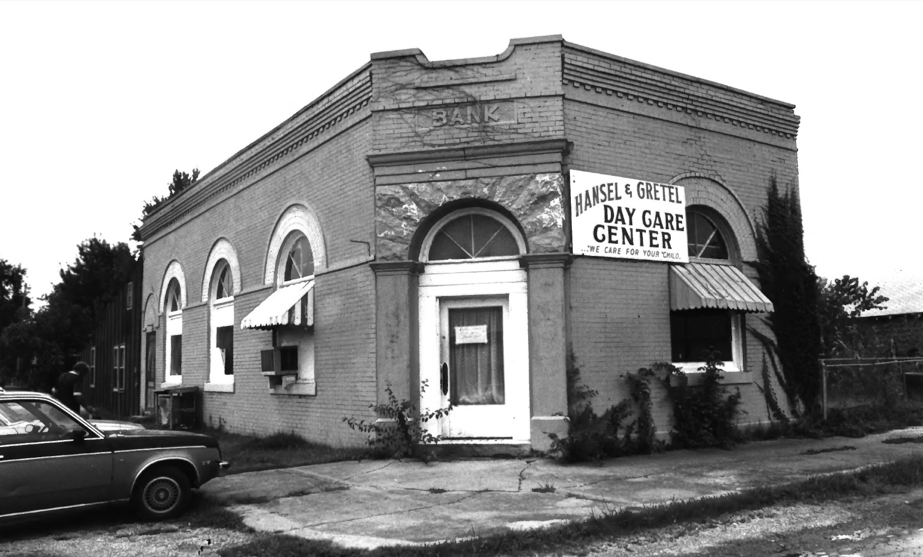 Farmers and Merchants Bank, built 1908, 201 W. Main Street, Choutea, Oklahoma. National Register of History Places. This building collapsed in July, 2012 and was removed.